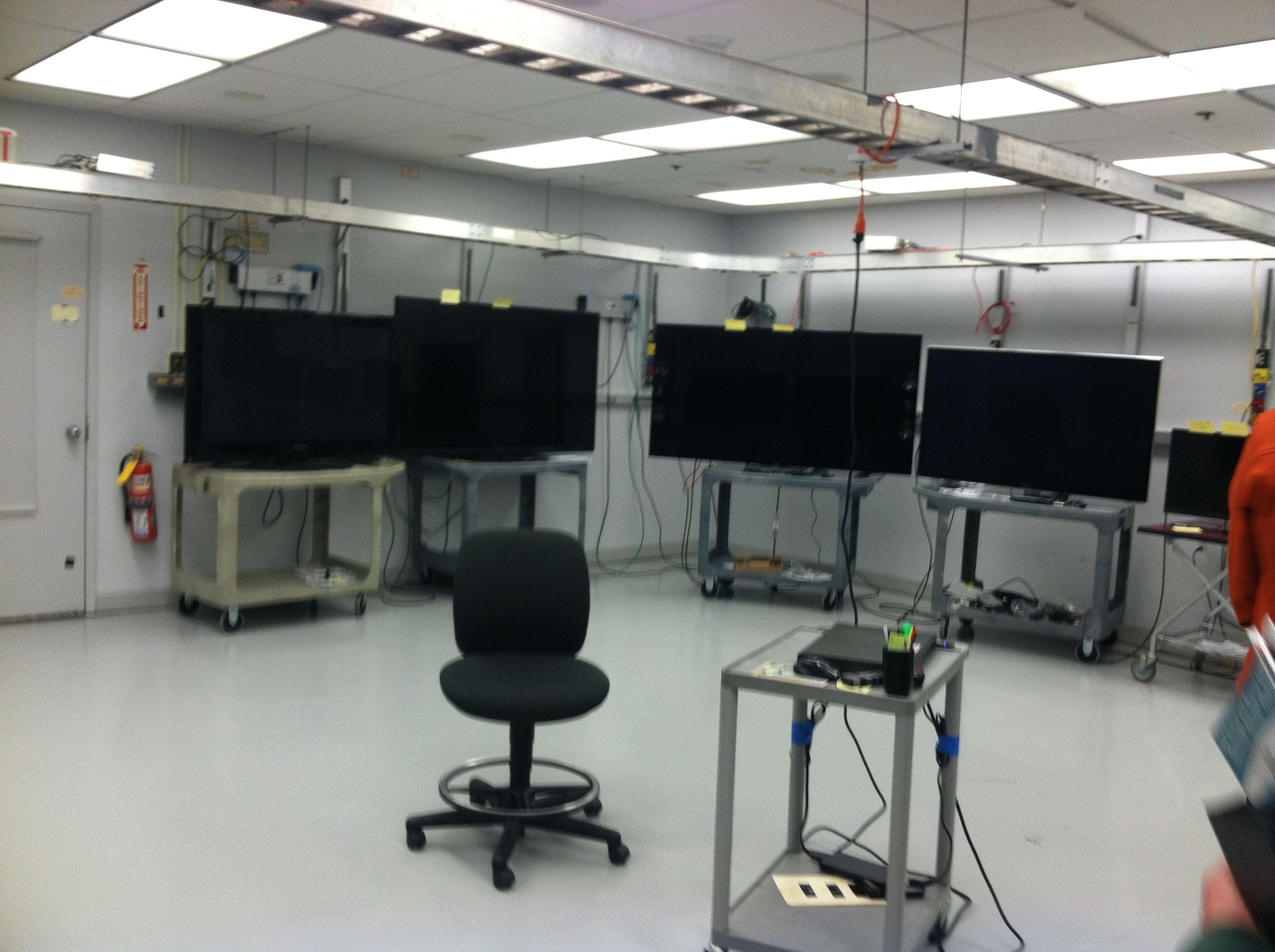 Yonkers, NY Consumer Reports